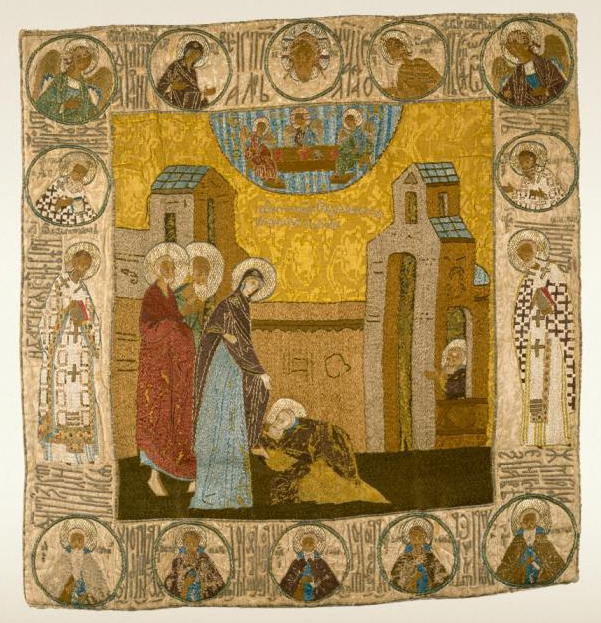 Appearance of the Theotokos (Mother of God) with the Apostles Peter and John to St. Sergius of Radonezh. Embroidered panel. 1480. Moscow.